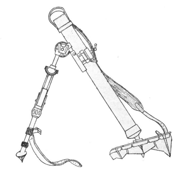 Left side view of a 60mm mortar